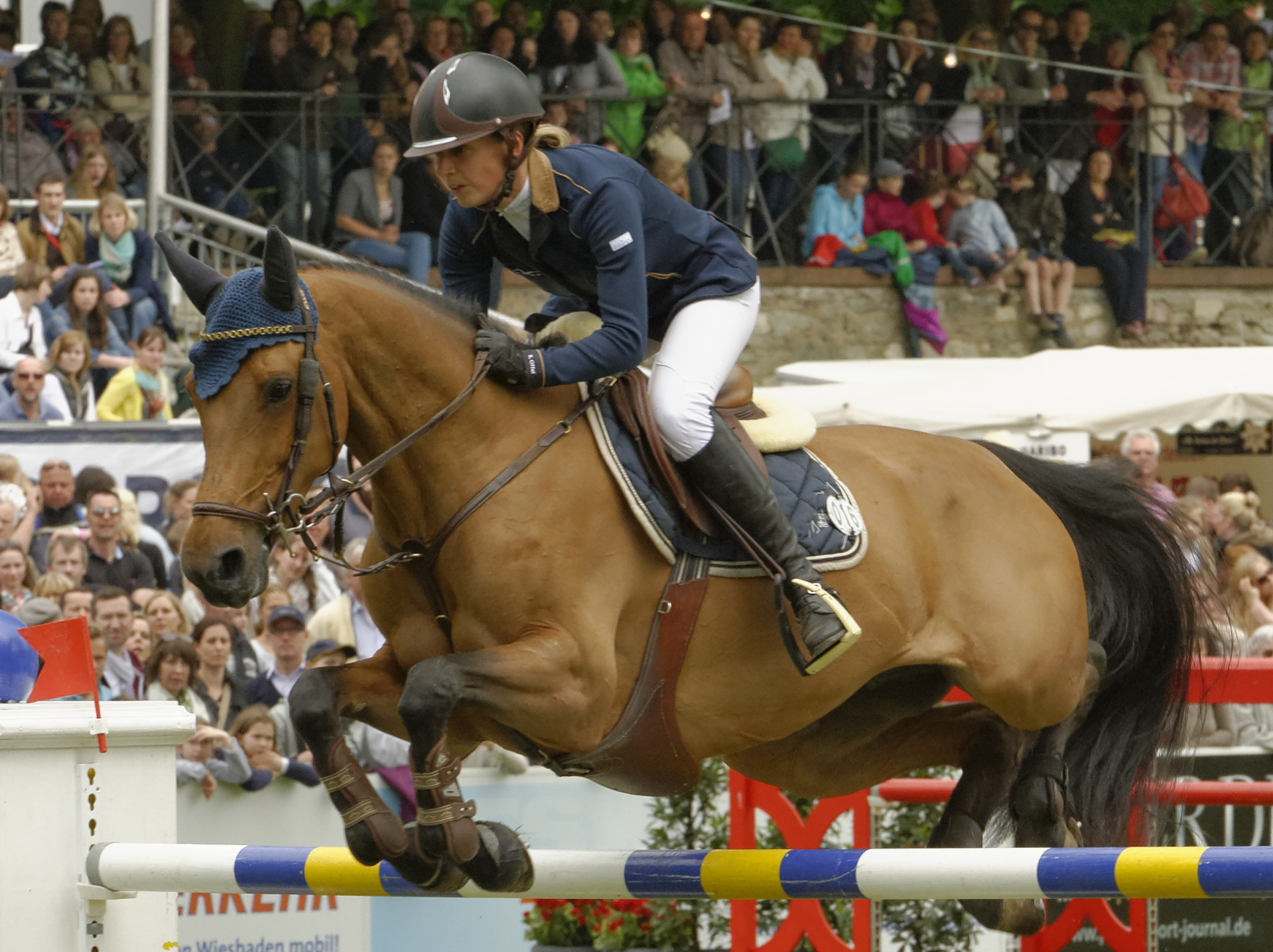 Internationales Pfingstturnier Wiesbaden 2013 The making of this document was supported by the Community-Budget of Wikimedia Germany.